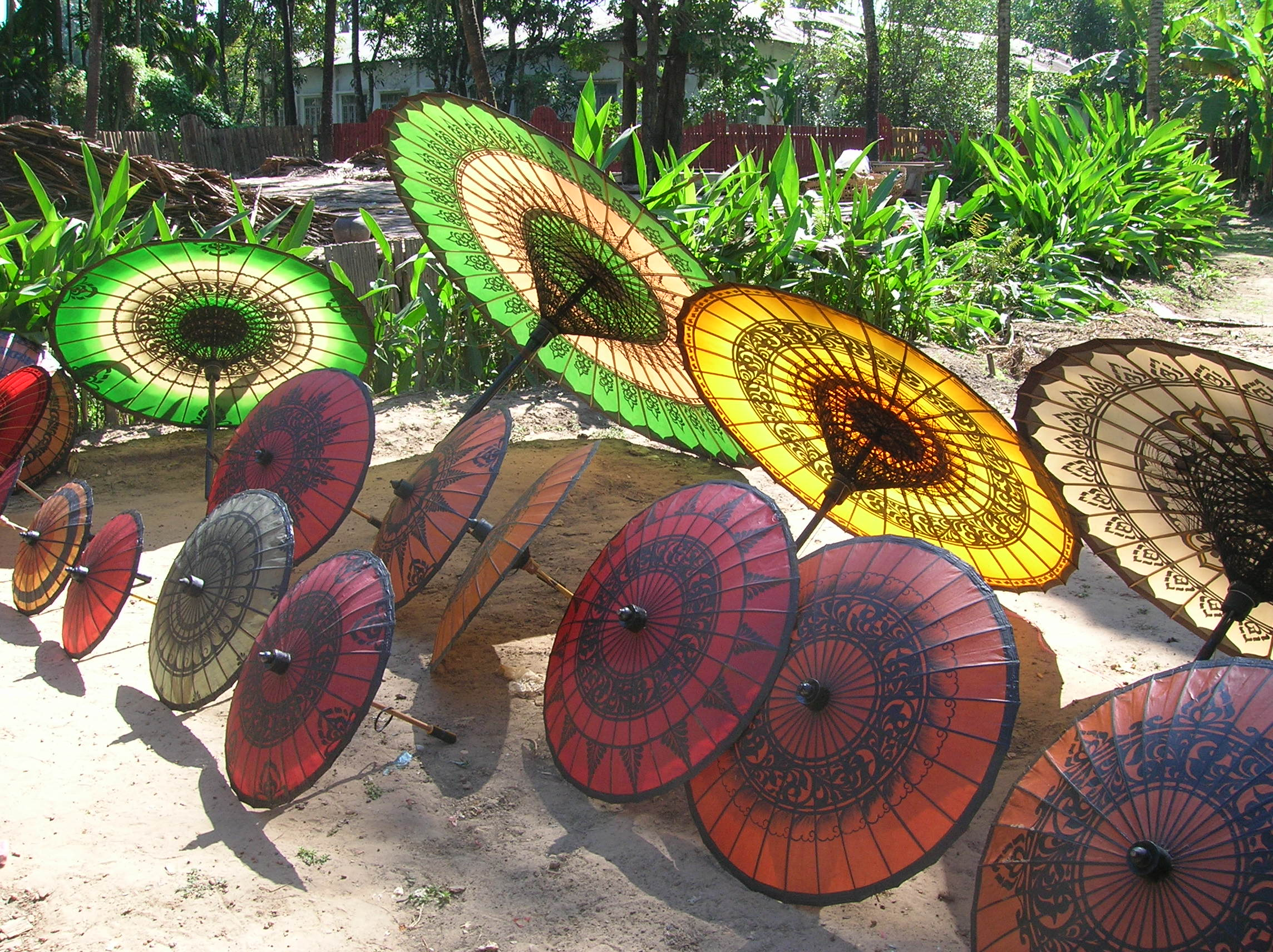 Parasols at the parasol maker's, Pathein, Burma.